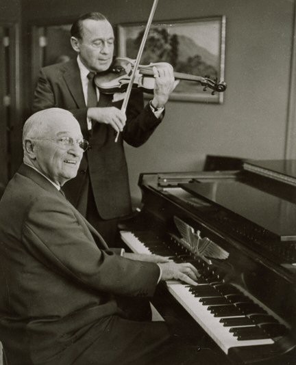 Photograph of President Harry S. Truman Playing the Piano While Jack Benny Plays the Violin.